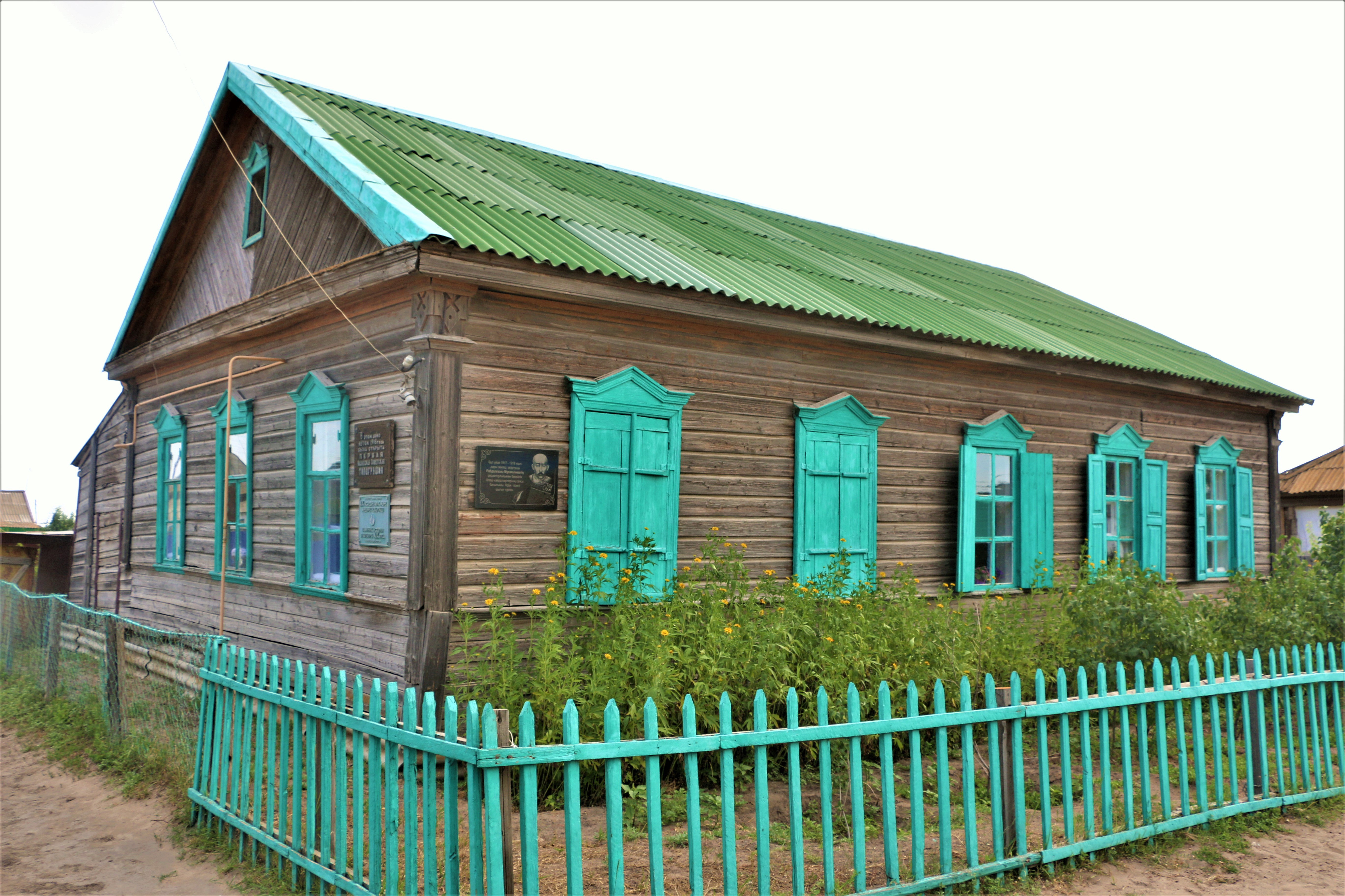 Khan Ordasy - Typography